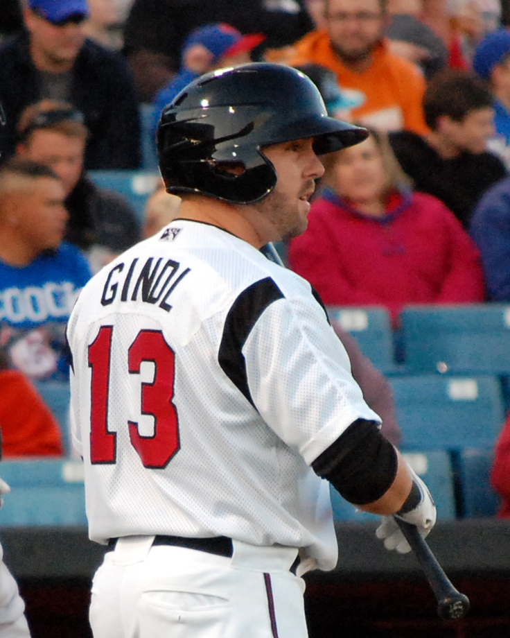 Caleb Gindl, a center fielder for the minor league Nashville Sounds, prepares to bat in a game at Herschel Greer Stadium on April 20, 2013